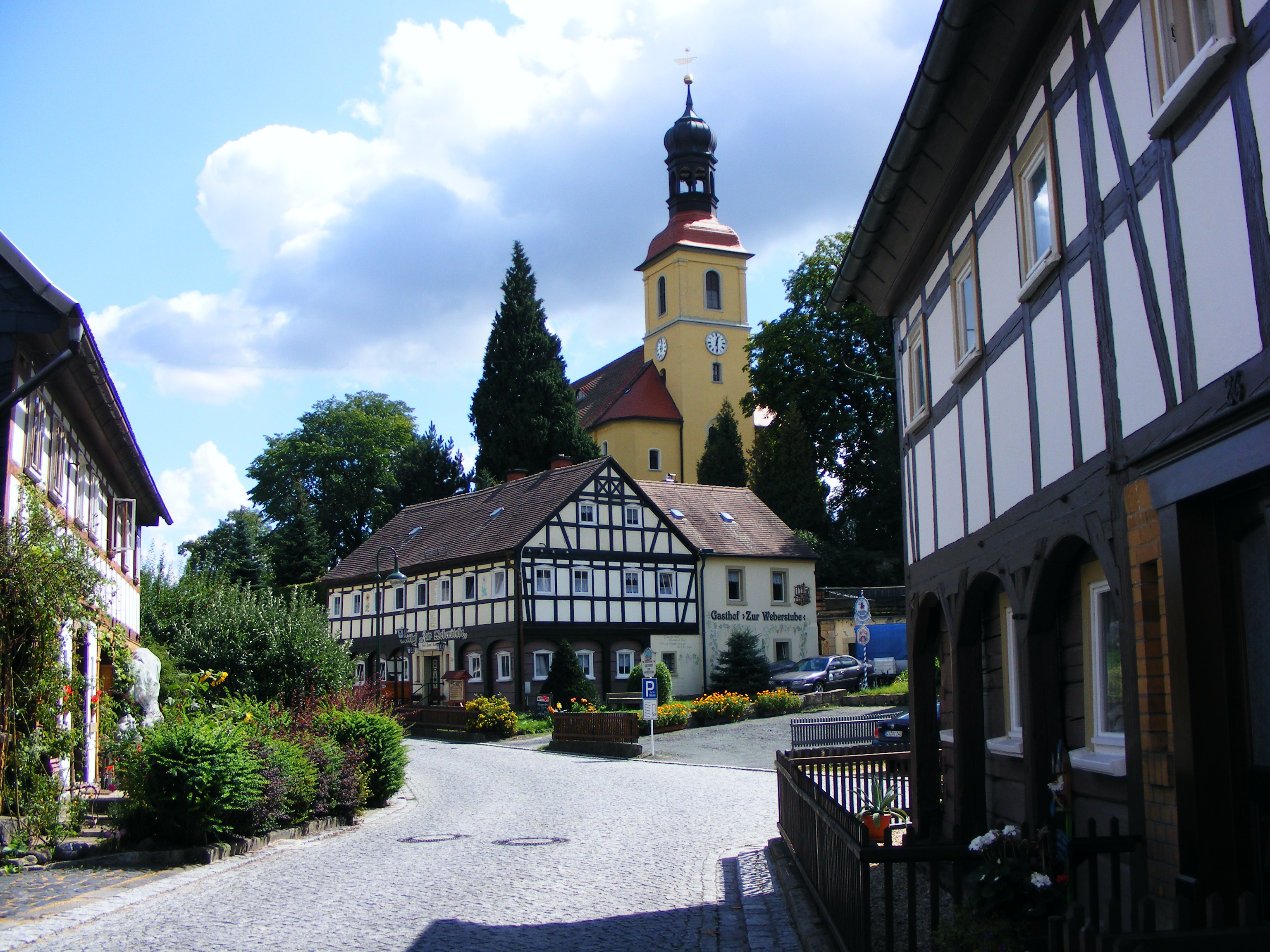 Grossschoenau, Saxony, Germany, View from the street "Haeblerstraße" to the church and the restaurant "Zur Weberstube"